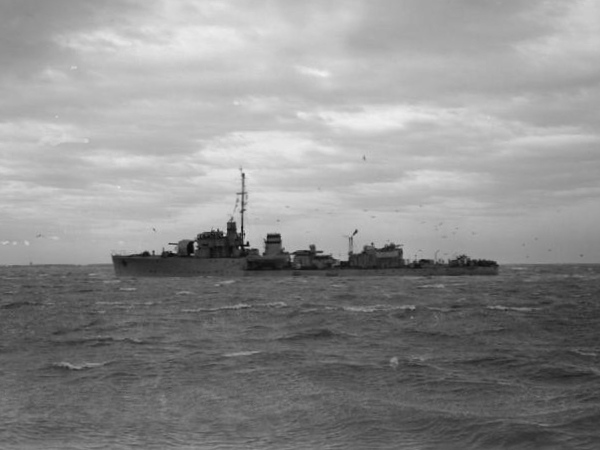 Photograph of British sloop HMS Mallard.